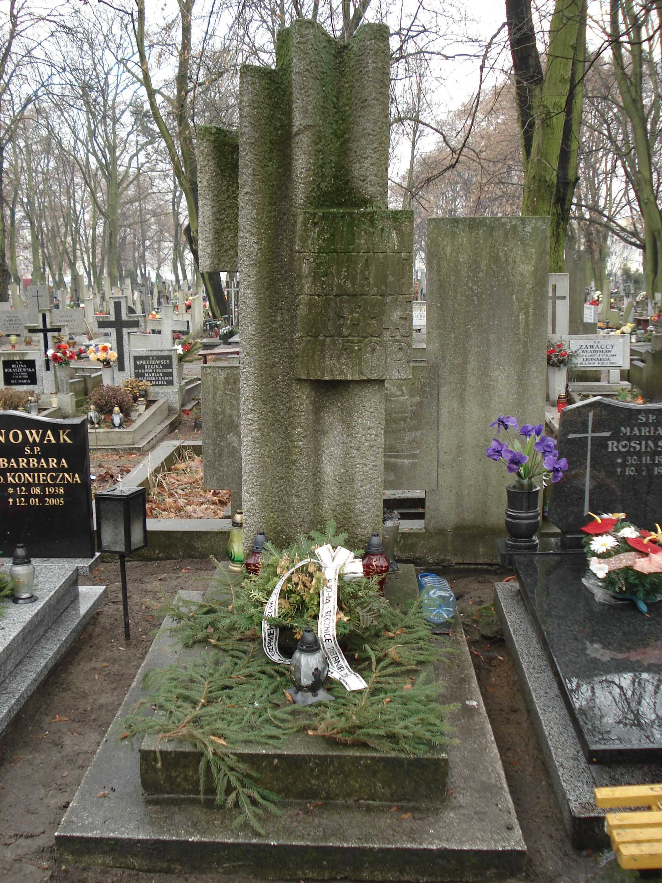 Wybickiego Street Cemetery in Toruń, gravestone Mieczysław Szpakiewicz